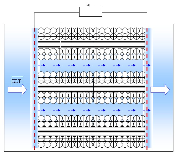 Molecular power 28. Electrokinetic device for generating electric current with pumping the electro-osmotic flow by pressure of a liquid electrolyte.